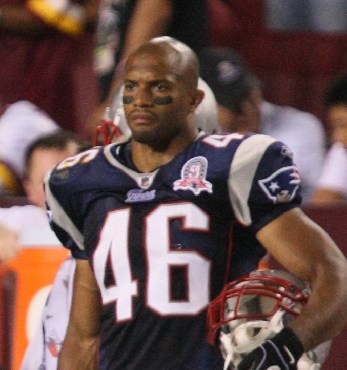 Paris Lenon of the New England Patriots watches the preseason game against the Washington Redskins at FedExField on August 28, 2009 in Landover, Maryland.